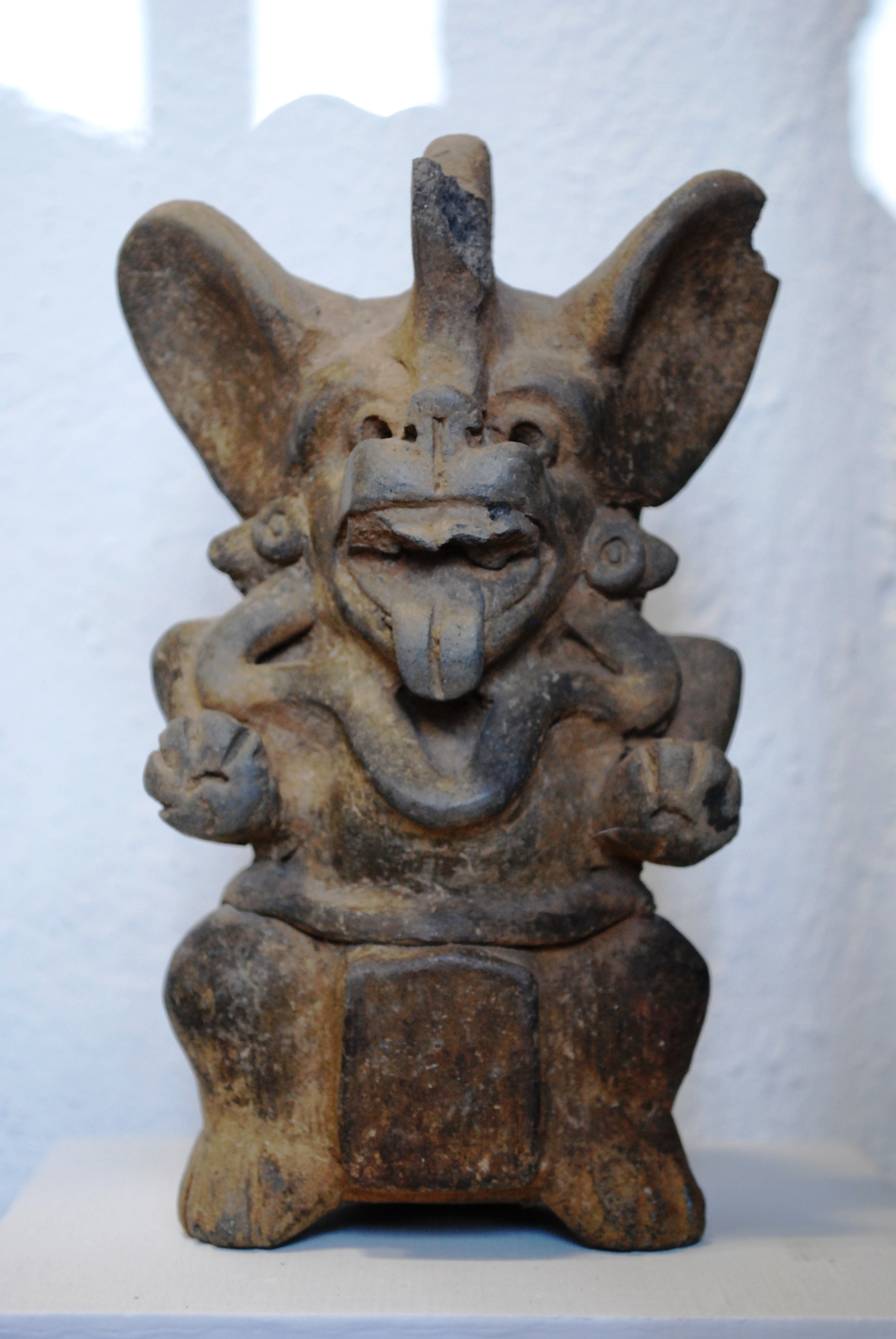 Ceramic nahual figure at the Anahuacalli Museum in Mexico City